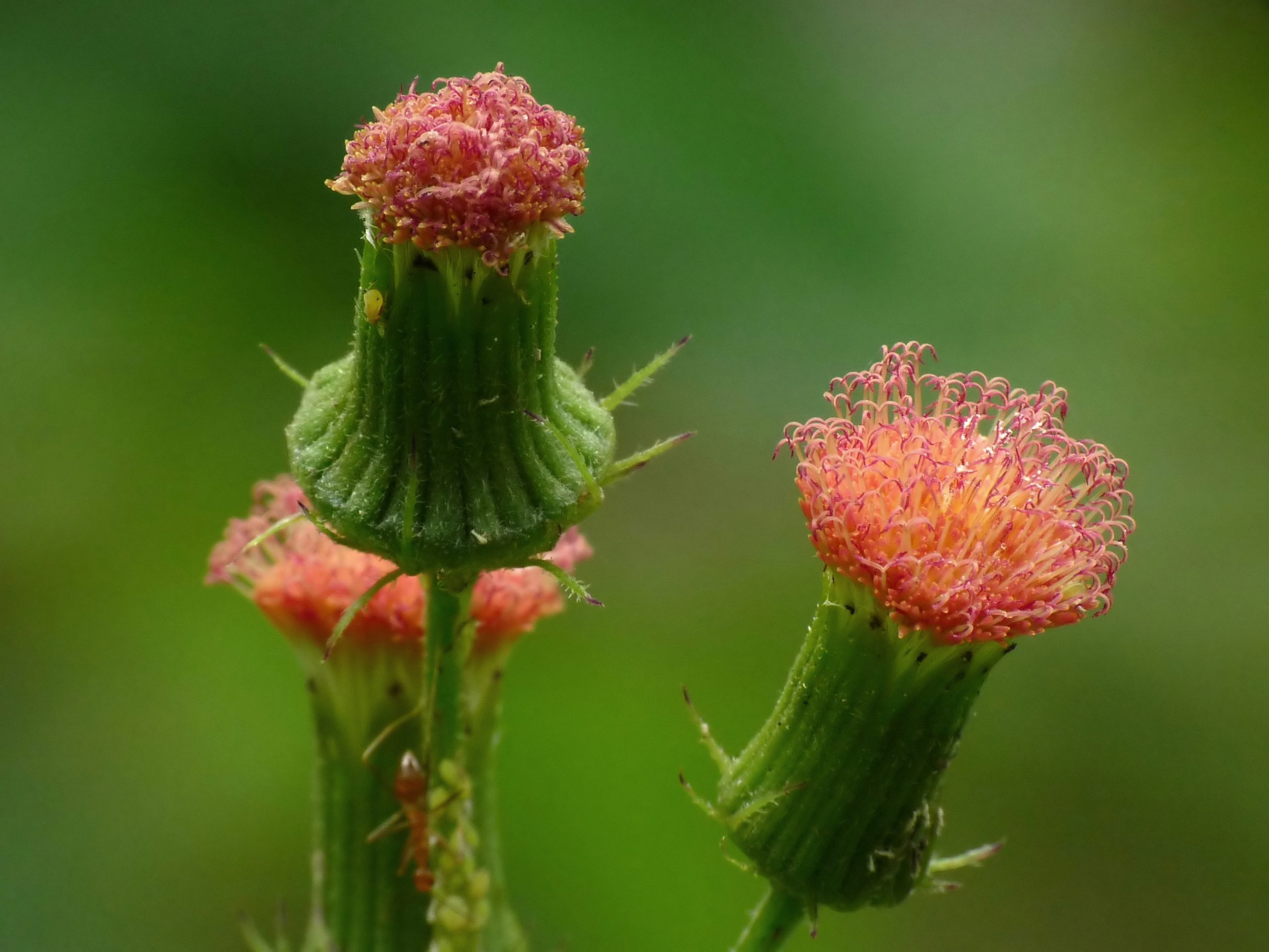 Crassocephalum crepidioides (Syn. Gynura crepidioides), also called ebolo, thickhead, redflower ragleaf, or fireweed, is an erect annual slightly succulent herb growing up to 180 cm tall. Its use is widespread in many tropical and subtropical regions, but is especially prominent in tropical Africa. Its fleshy, mucilaginous leaves and stems are eaten as a vegetable, and many parts of the plant have medical uses. However, the safety of internal use needs further research due to the presence of plant toxins. Flowerheads are cylindrical, green, with red florets visible on top. Seeds are floating balls of numerous silky white hair, which kids in India call by names equivalent to 'old lady' in different languages. Thickhead is native to tropical Africa, but now naturalized in India and South East Asia. C. crepidioides contains the hepatotoxic and tumorigenic pyrrolizidine alkaloid, jacobine.